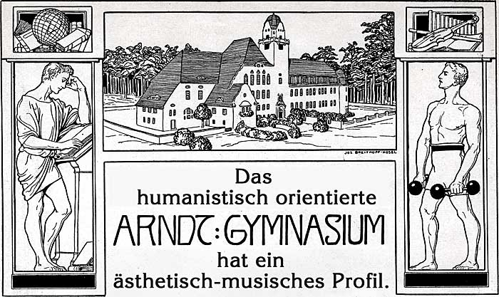 programm of the arndt-gymnasium dahlem